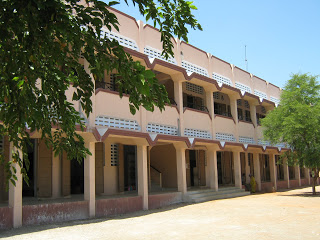 KG Section